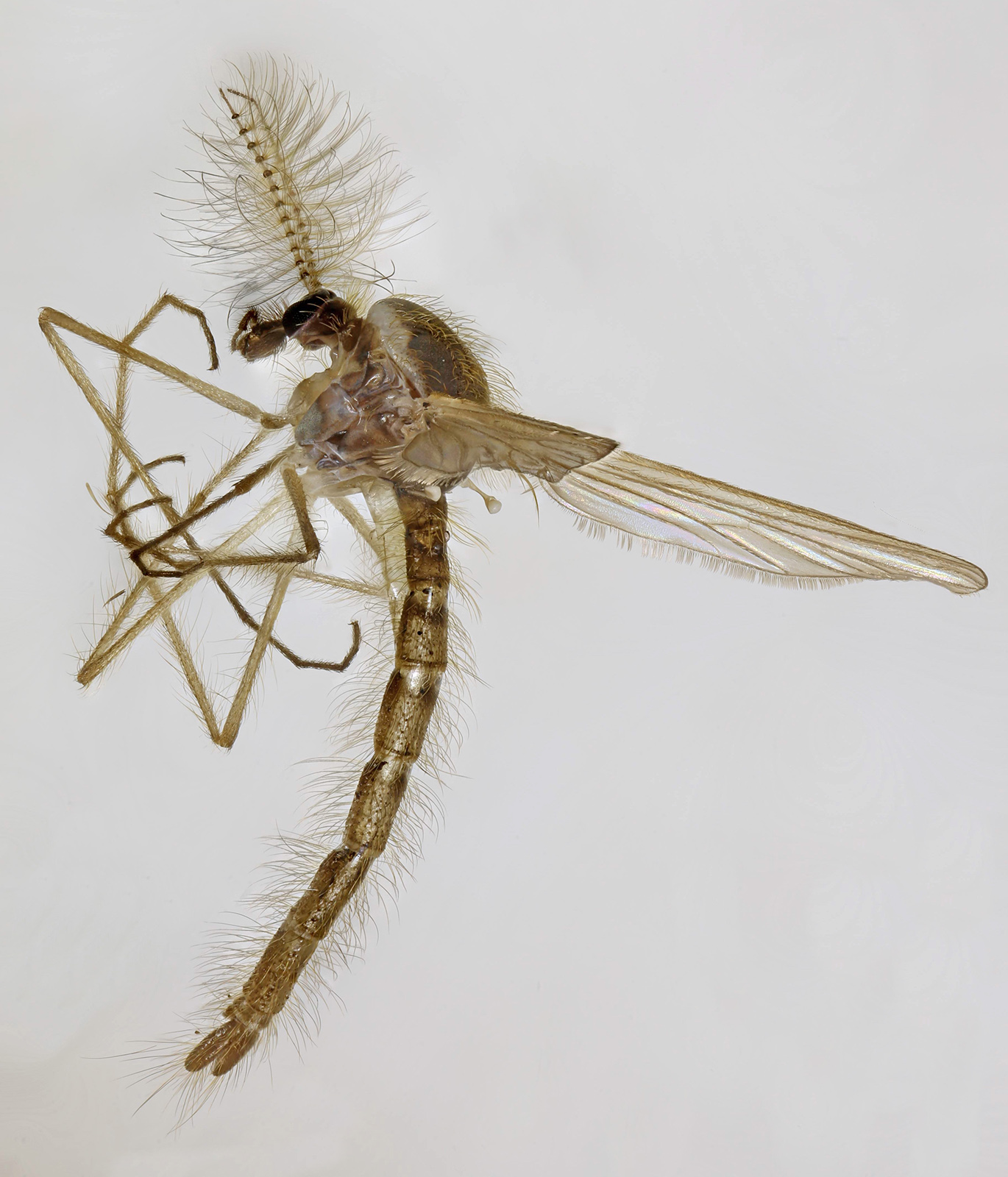 Chaoborus flavicans, Trawscoed, North Wales, Aug 2015